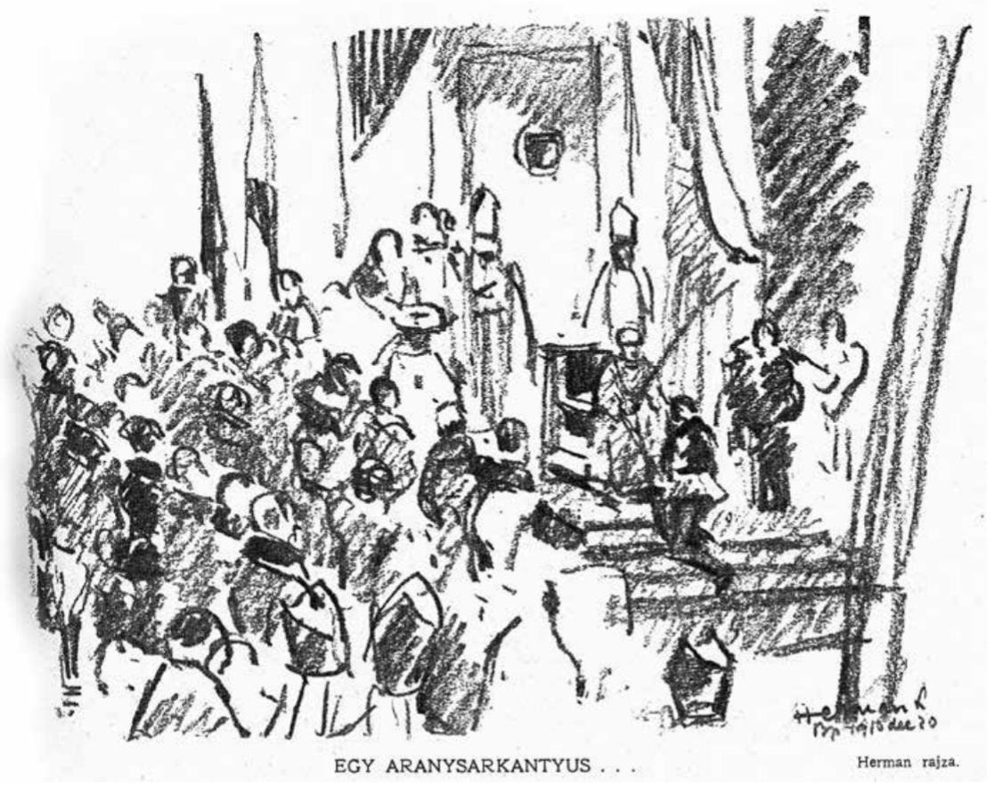 Sketch of Lipót Herman about the 1916 creation of the knights of the golden spur